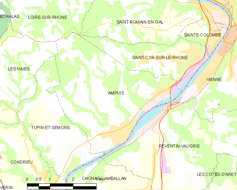 Map of French municipality